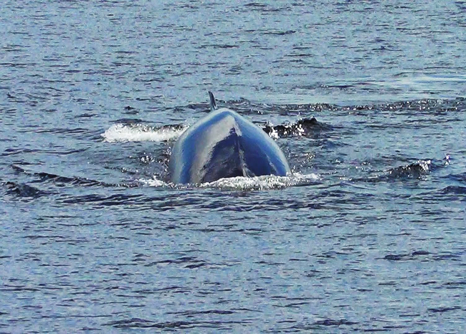 Diving minke whale towards my boat